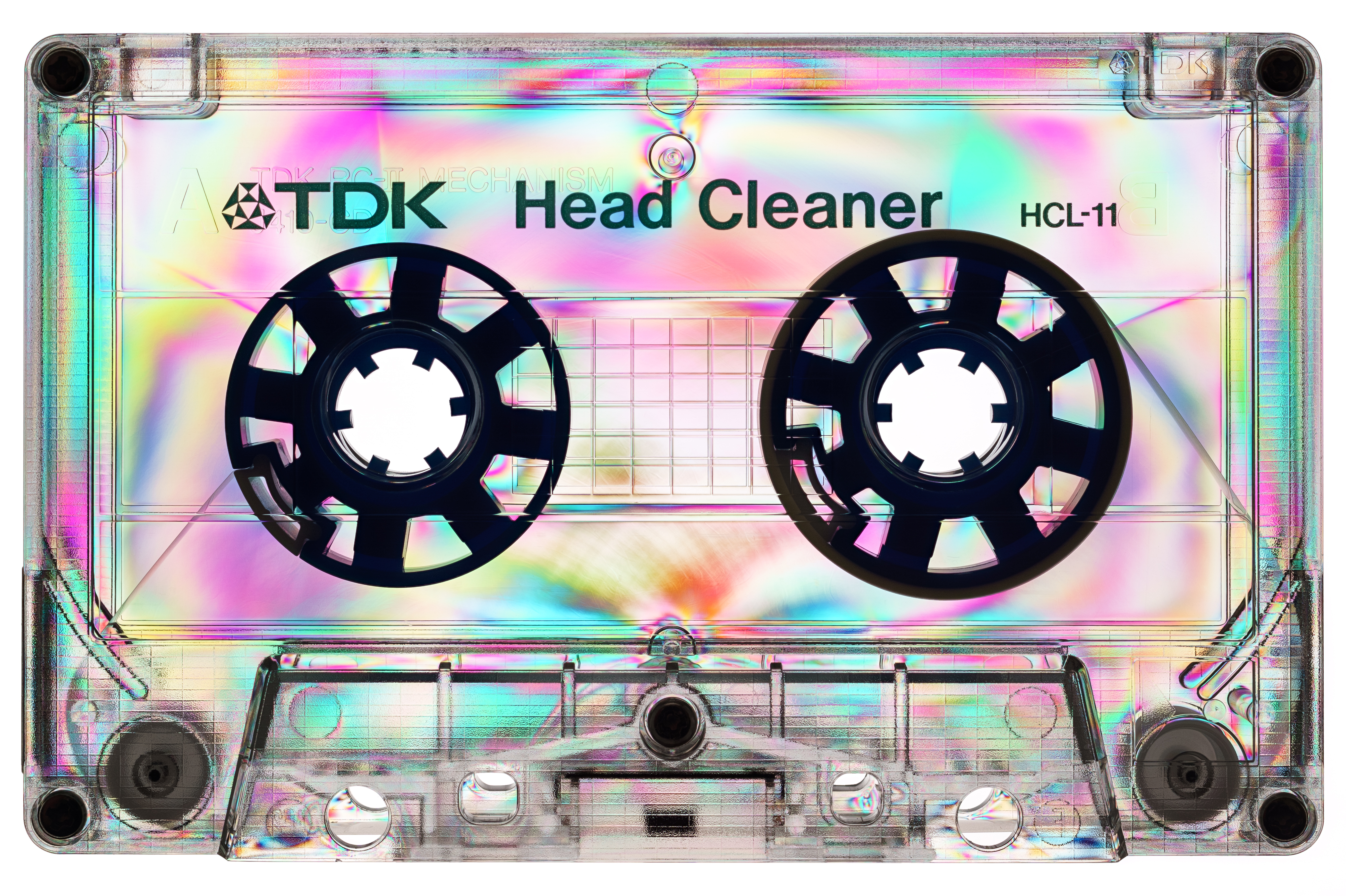 TDK tape head cleaner cassette "HCL-11" made of clear hard plastic. The plastic is birefringent and demonstrates internal stress as coloured patterns (photoelasticity) when photographed using cross polarisation. The polarising light source (an LCD monitor) has been rotated such that the polarising filter on the lens is similarly oriented and so lets through all the direct light, producing a white background.